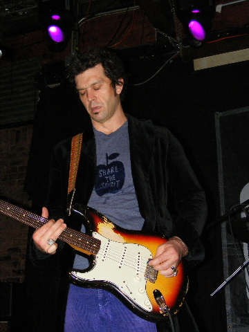 Doyle Bramhall II - Antone's in Austin, TX (2009). Photo by Ron Baker.